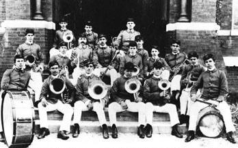 The original Auburn Band. Picture from 1897.